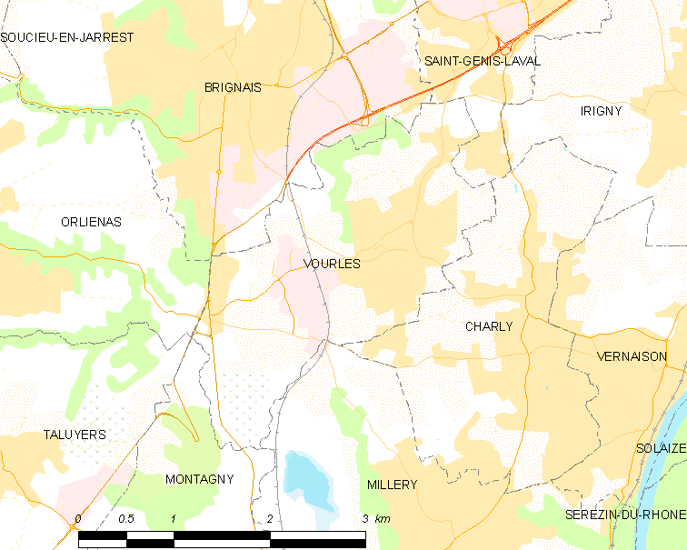 Map of French municipality